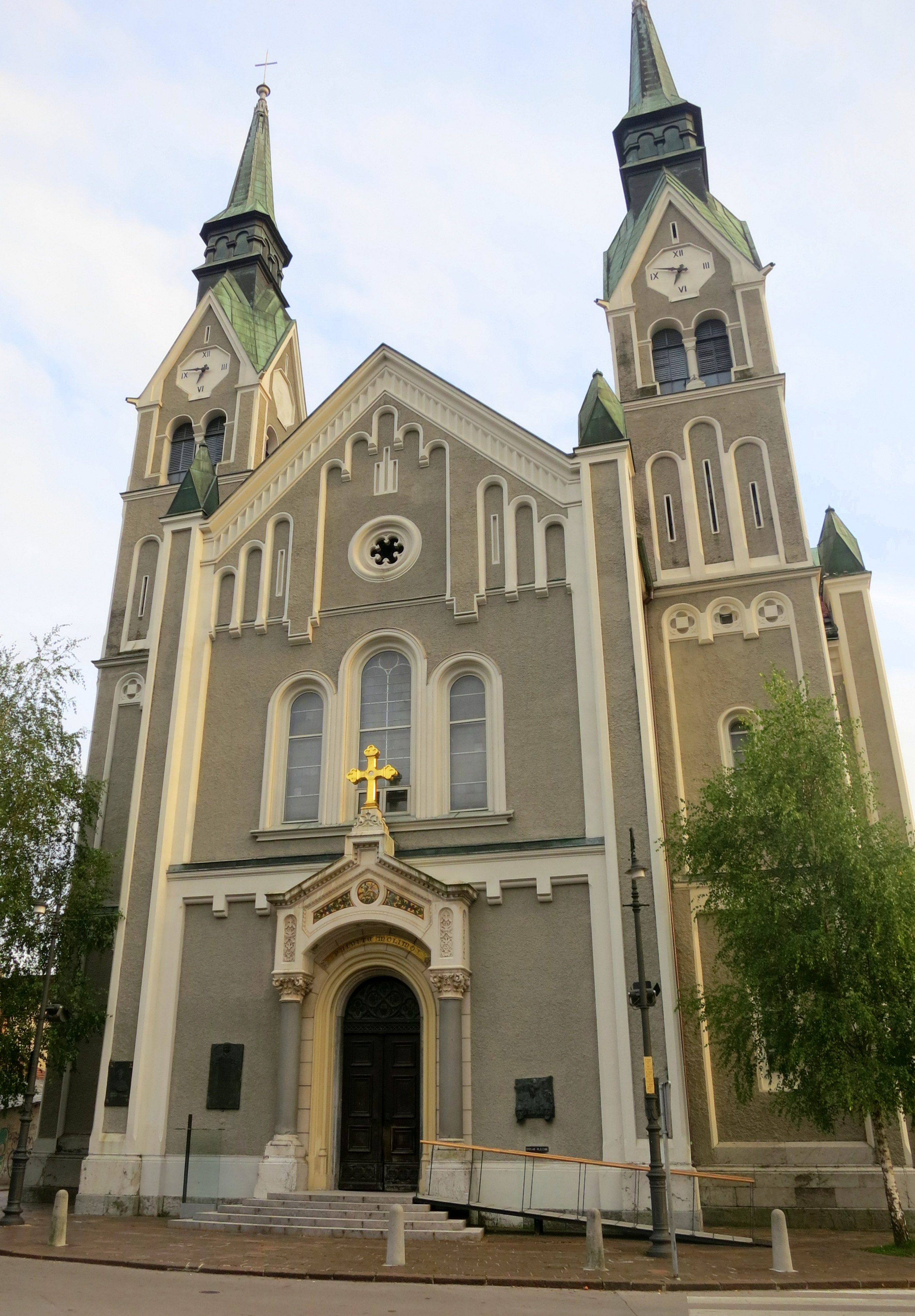 Our neighborhood Trnovo Church